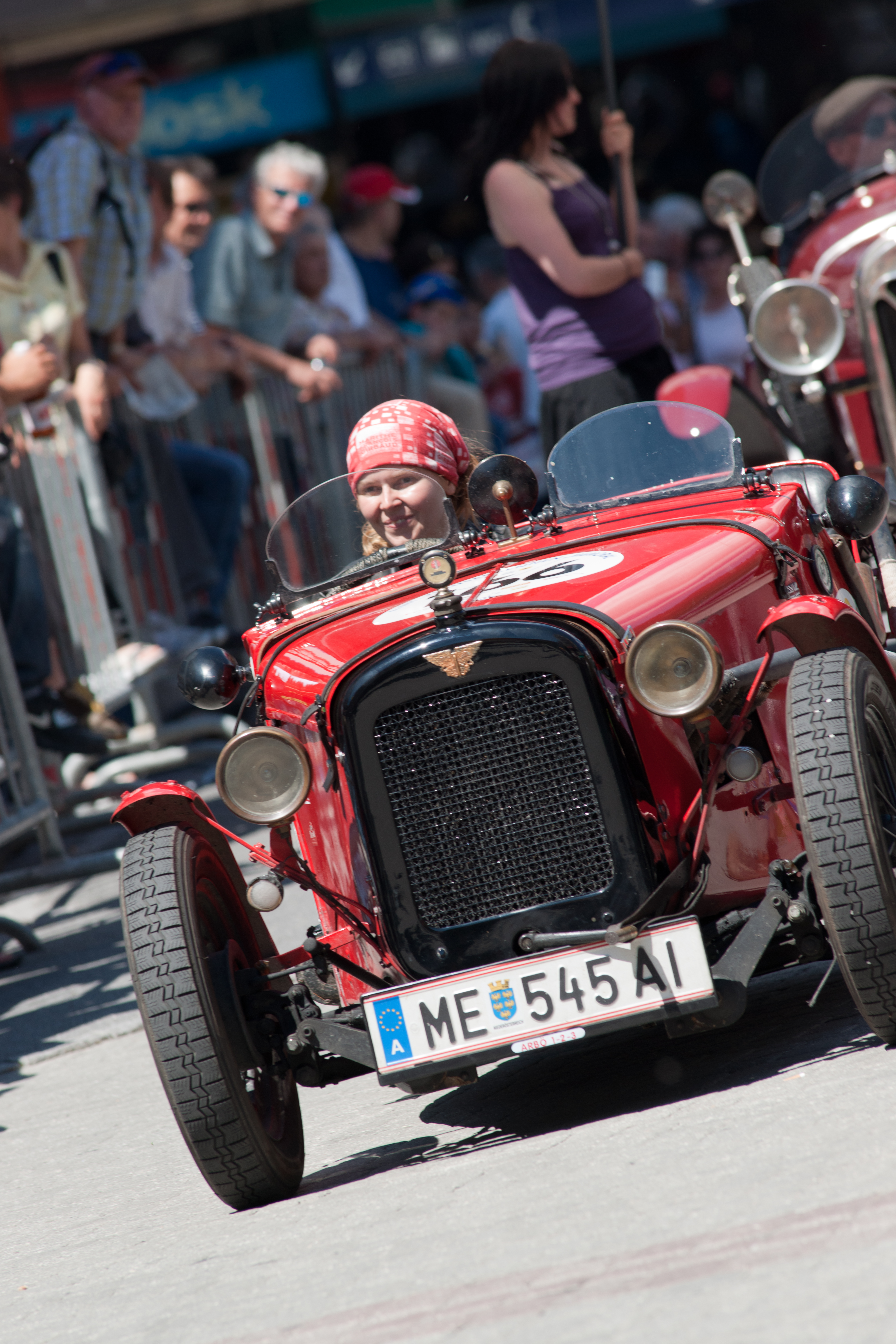 The making of this document was supported by Wikimedia CH. (Submit your project!) For all the files concerned, please see the category Supported by Wikimedia CH.